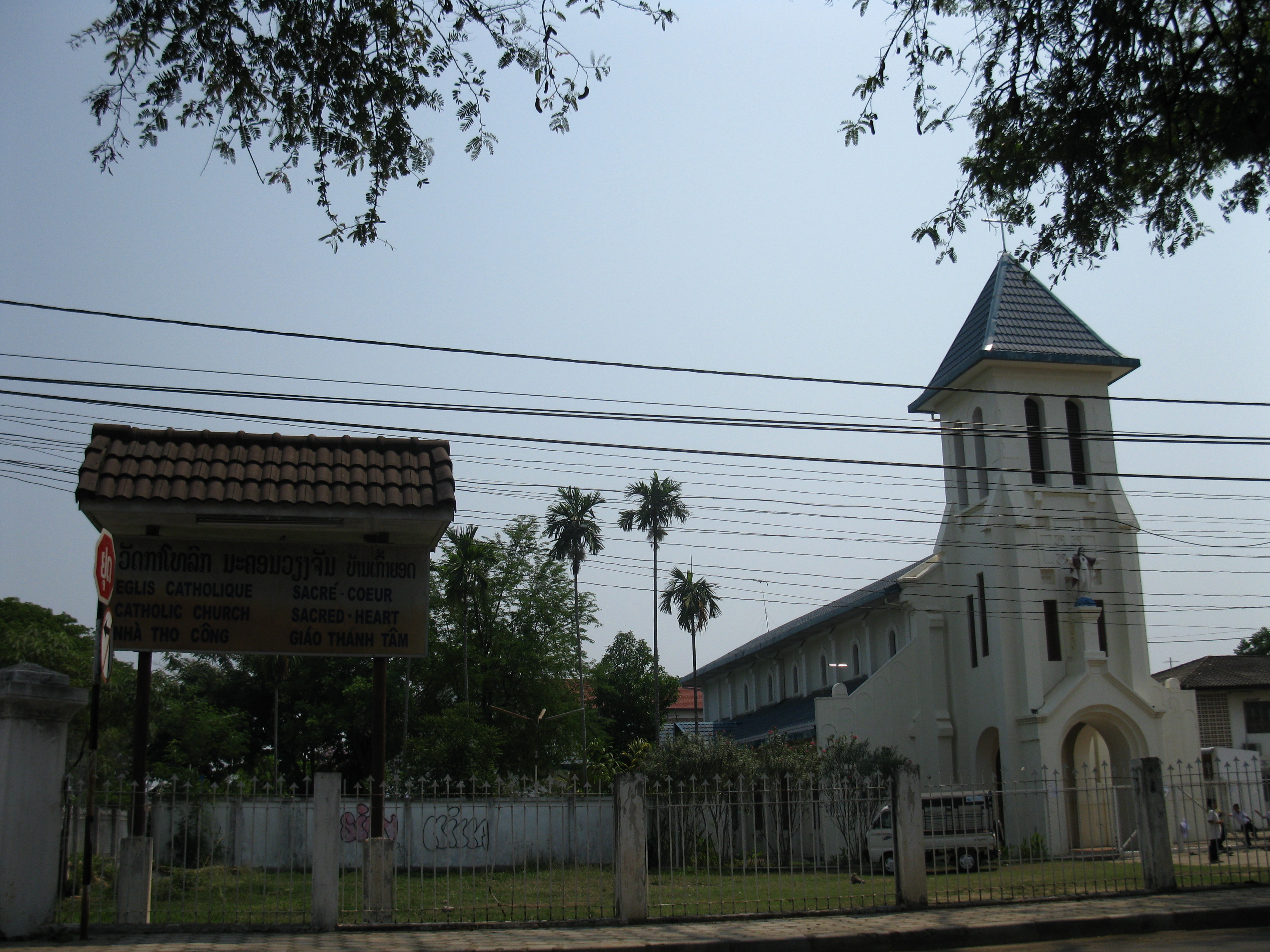 Catholic Church "Sacre Coeur" (built 1928), Vientiane, Laos.